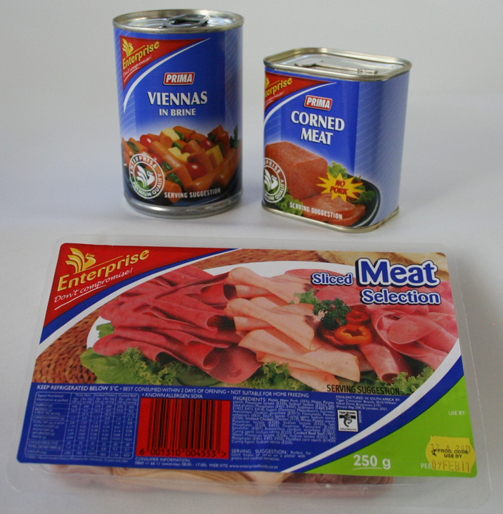 A selection of Enerprise corned meats, a subsidiary of Tiger Brands of South Africa.